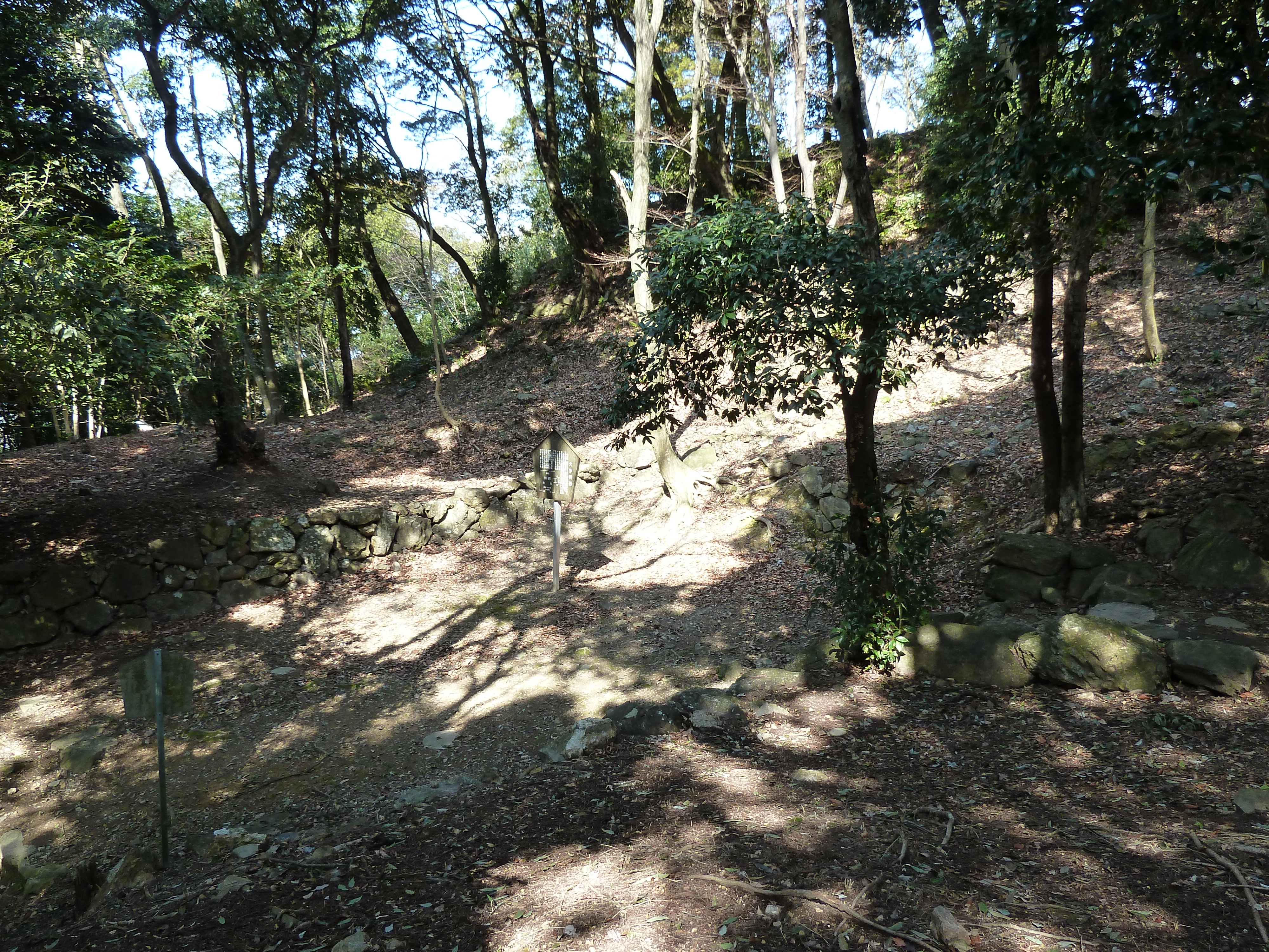 上から望む大手枡形。左側が大手門跡で右下が二の門跡。